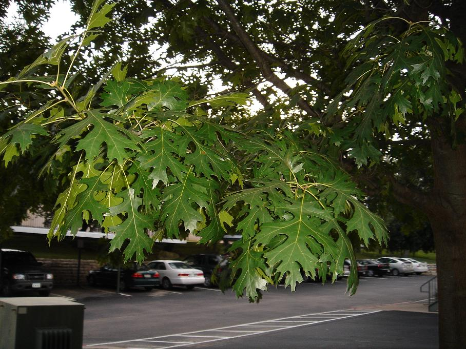 This is a photo of the leaves of a Shumard Oak photographed on the grounds of an apartment complex in Northwest Austin, Texas (30°23'59.55" N 97°42'24.13" W). I took this picture using a Sony DSC-T3 digital camera.